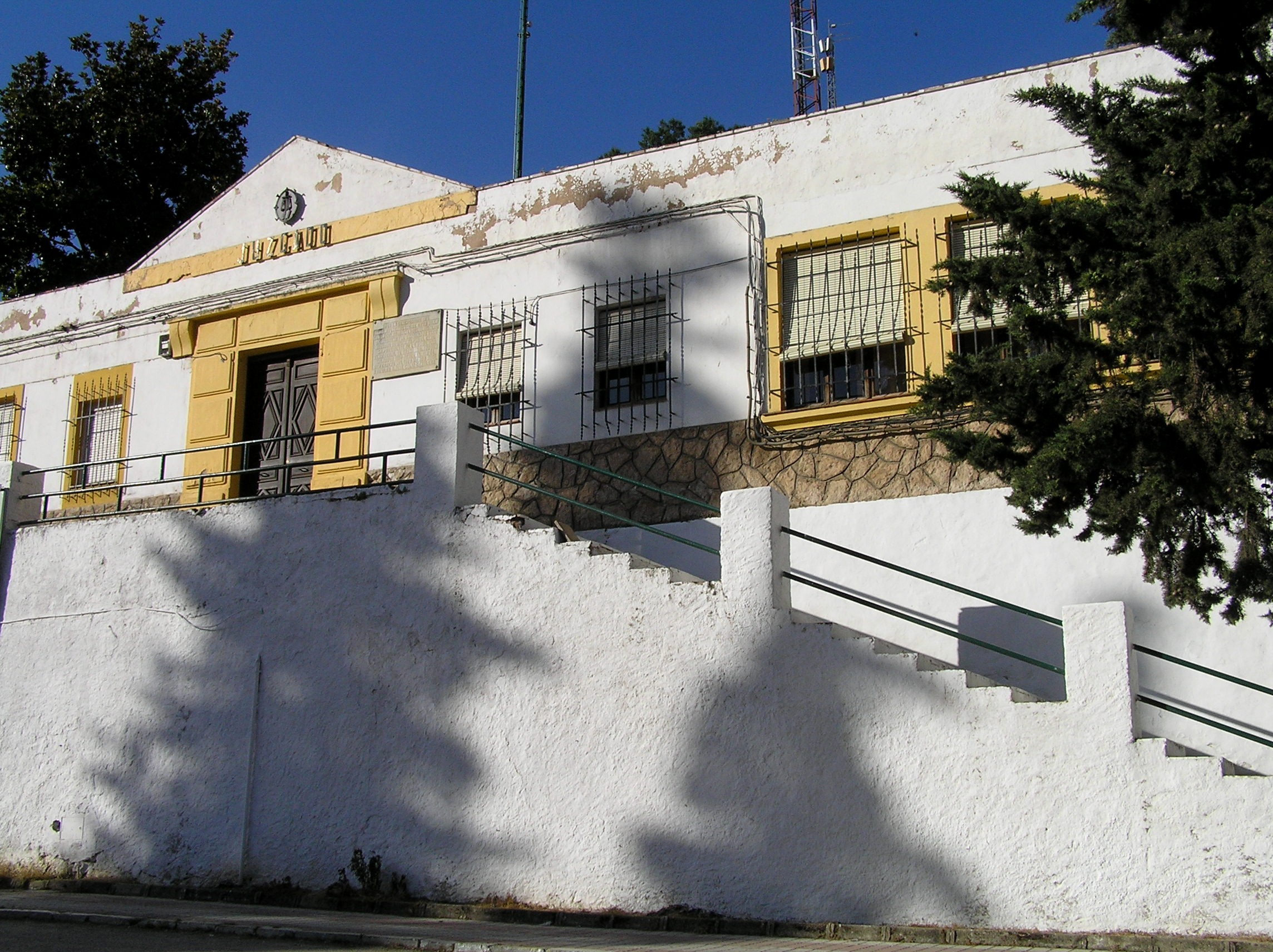 Juzgado de Paz